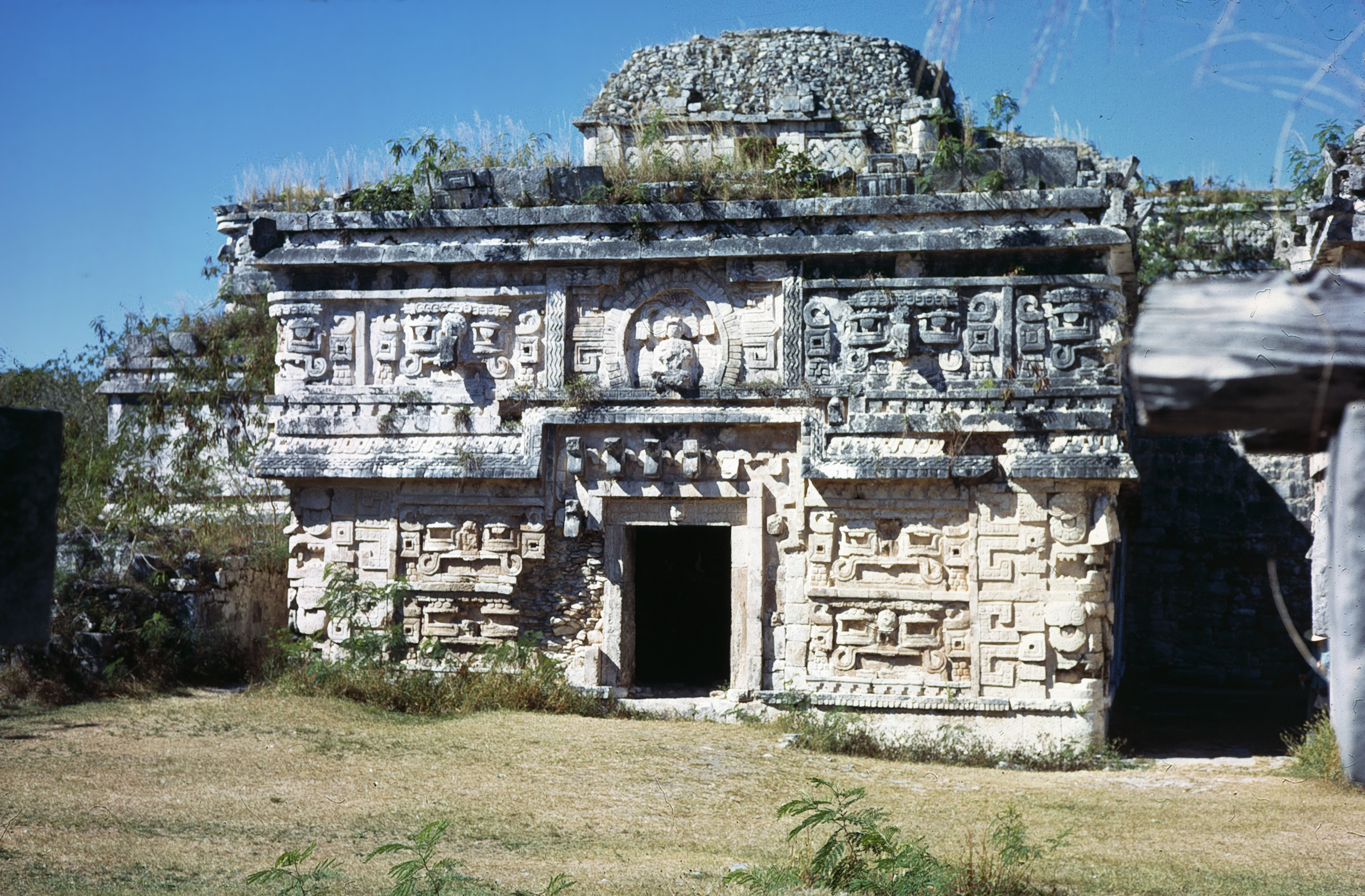 Chichen Itza, Yucatan, Mexico: Monjas Annex east side